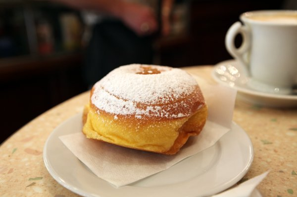 Bomboloni with apricot marmalade.